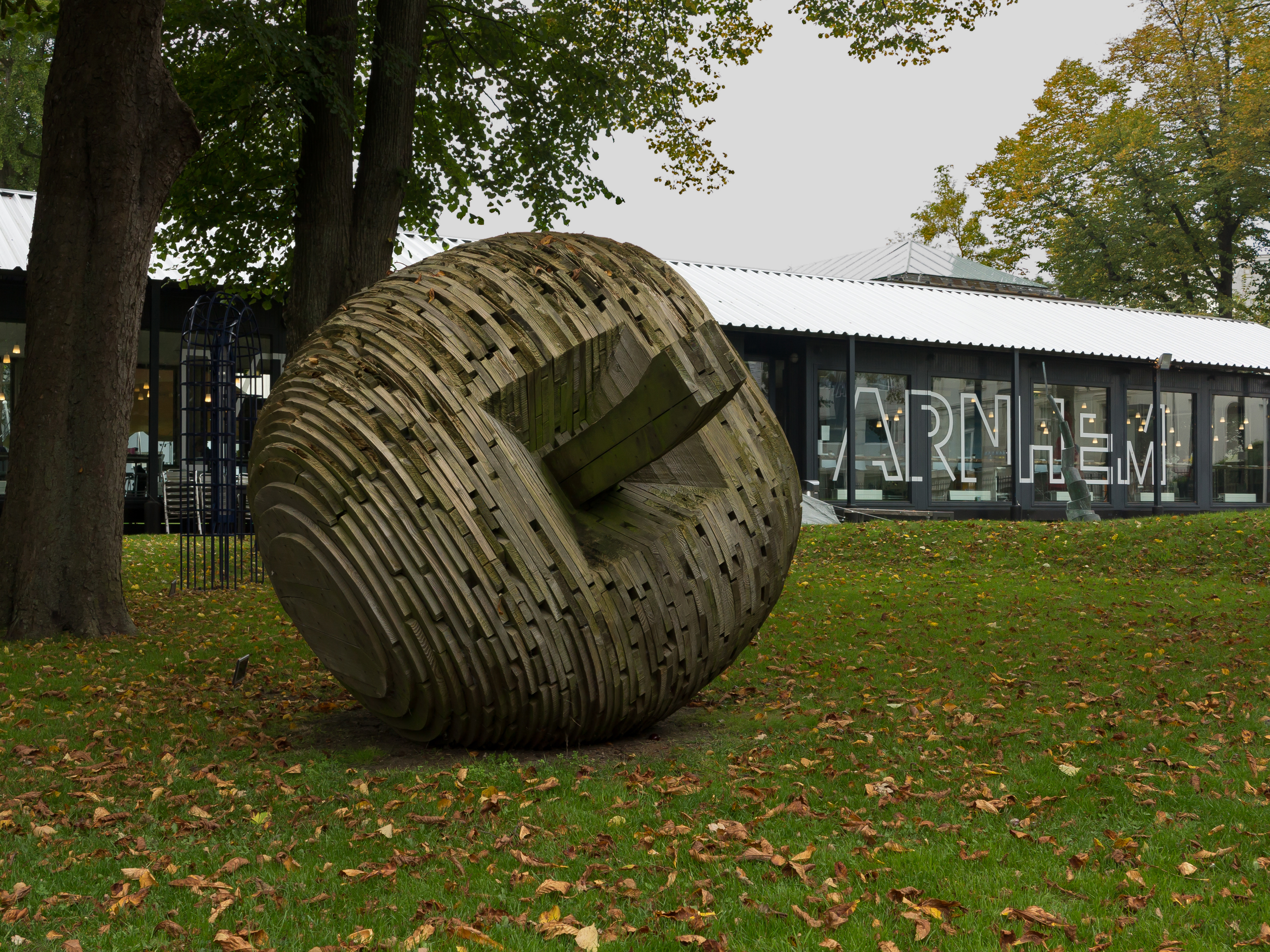 Arnhem, wooden sculpture De Appel (1977) by Kees Franse in the sculpture garden of museum (Museum Moderne Kunst Arnhem)